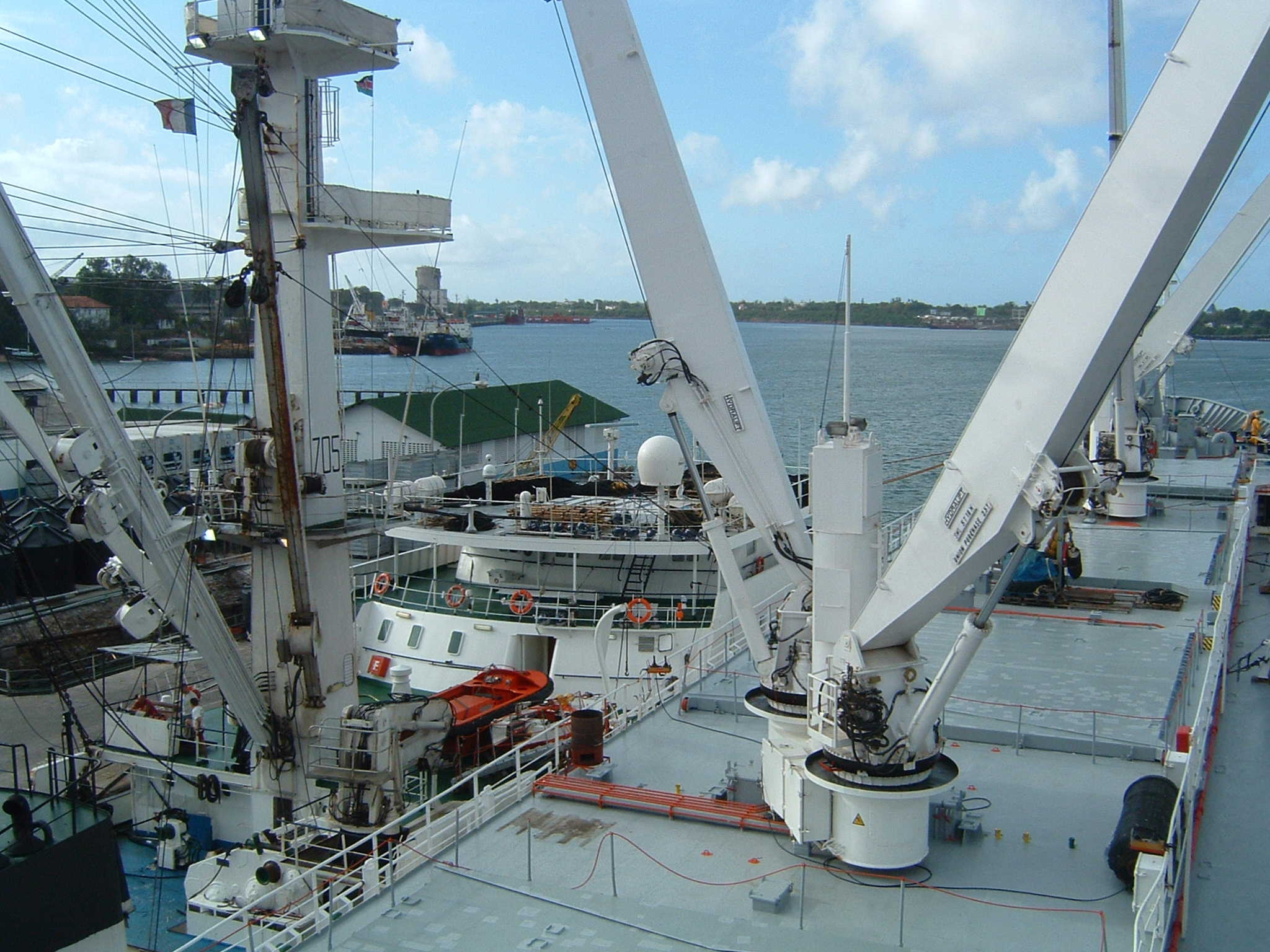 Crane - Grue on board a ship